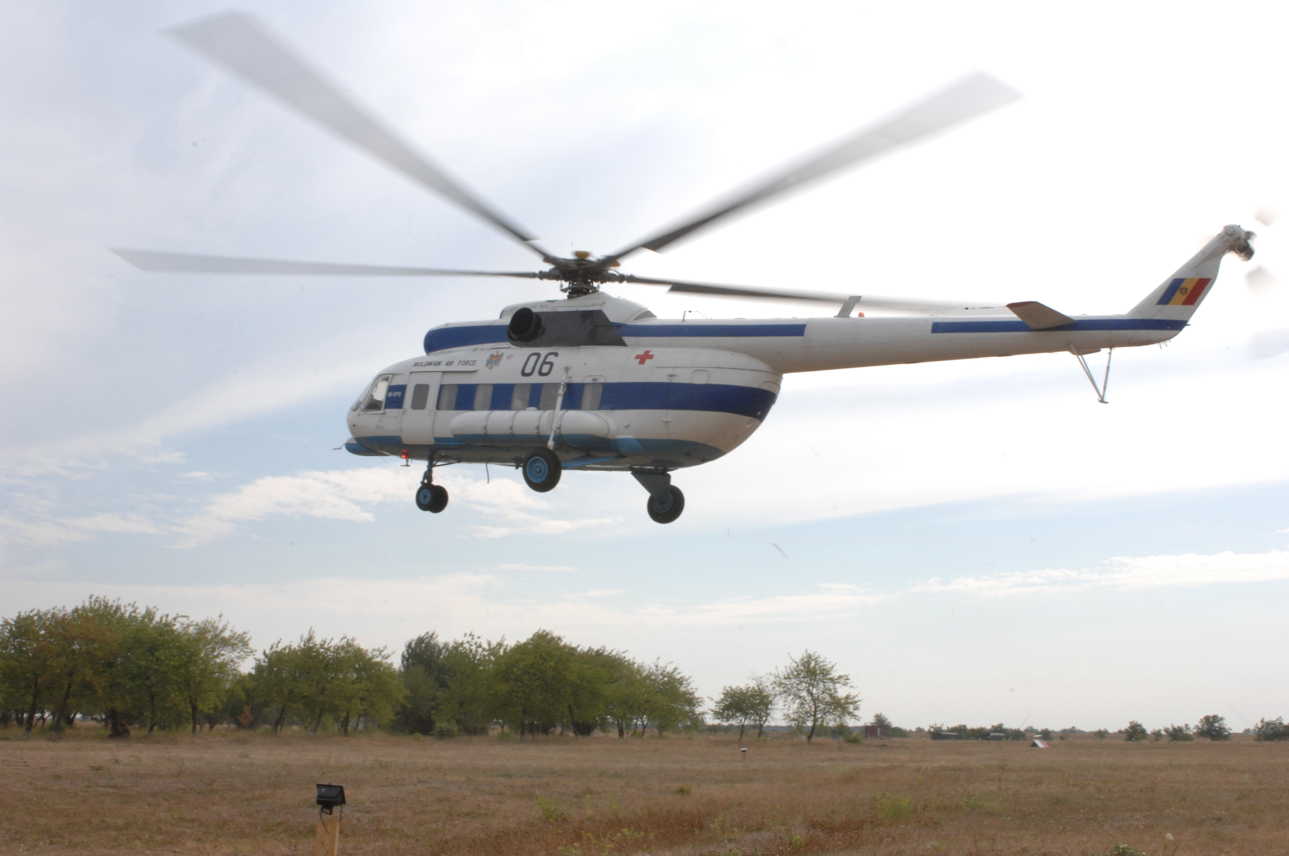 BULBOACA TRAINING CENTER, Moldova - 6 Aug 2007 A Moldovia medical helicopter lands and gets ready to participate in The Medical Training Exercise in Central and Eastern Europe 2007 (MEDCEUR 2007). MEDCEUR 2007 is a multinational combined medical training exercise being held in the country of Moldova.